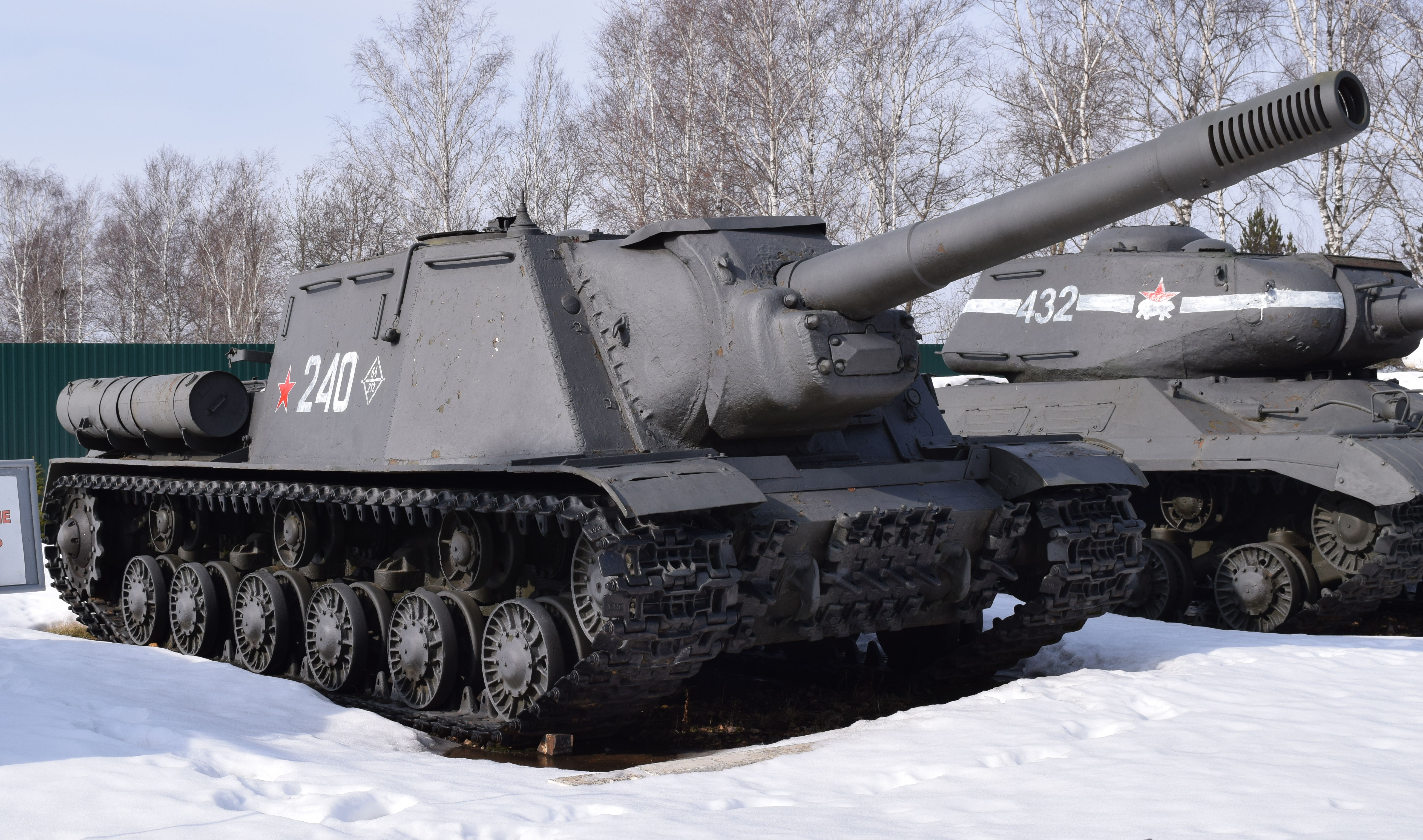 ISU-152 tank in Kubinka Tank Museum, Russia Moscow